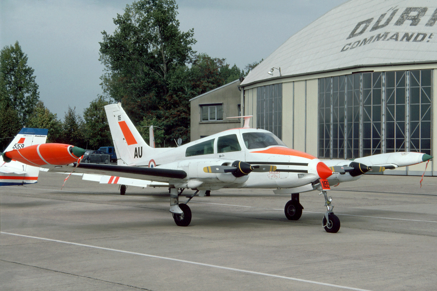 The French had 18 of these nice little Cessnas in service, some of them are still in use. Tail number 185, a 310M, of test unit CEV is seen during the open house at Bréetingy sur Orge on 27 September 1992.